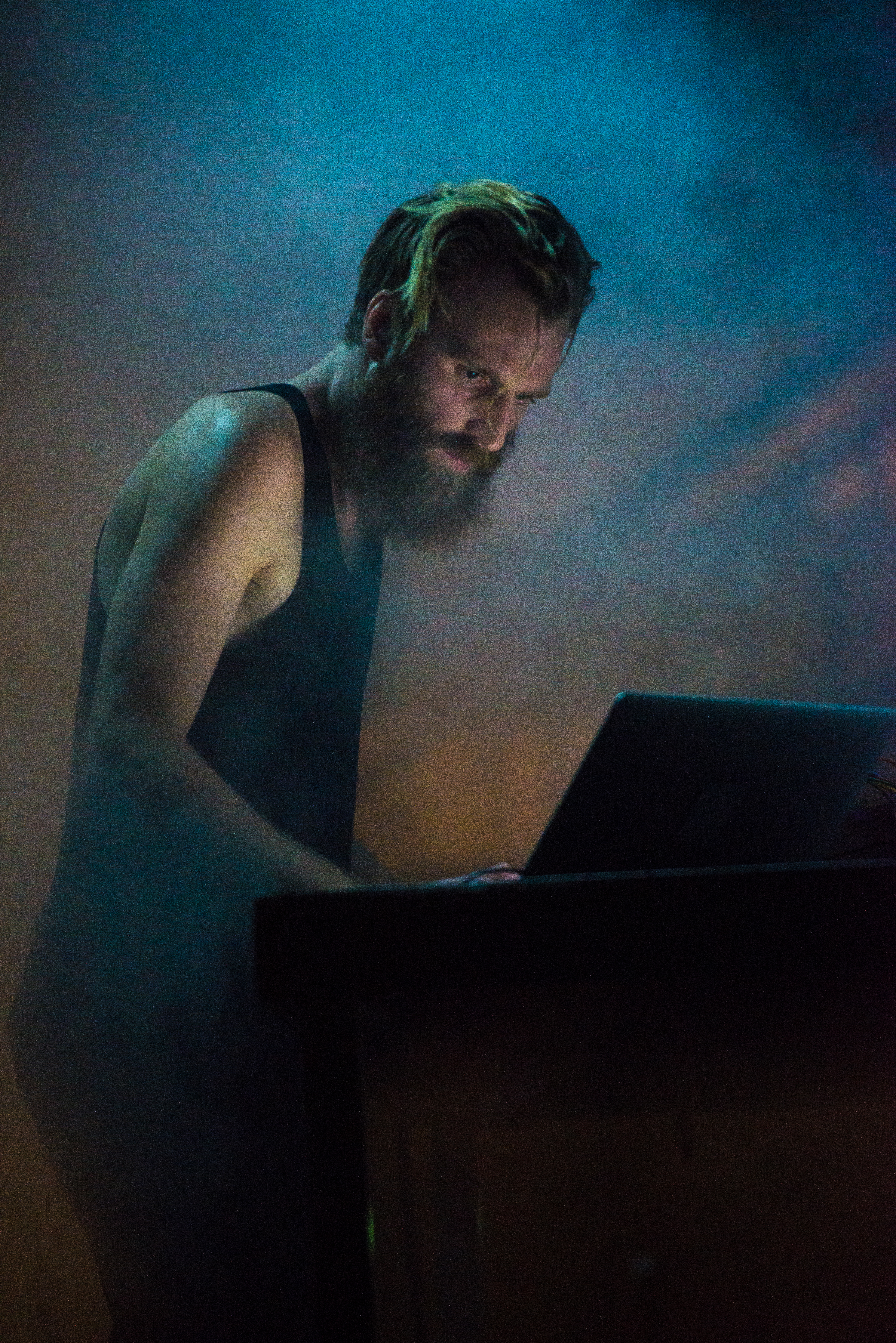 Ben Frost at the Denovali Swingfest, Essen 2014 Essen, 5.10.2014